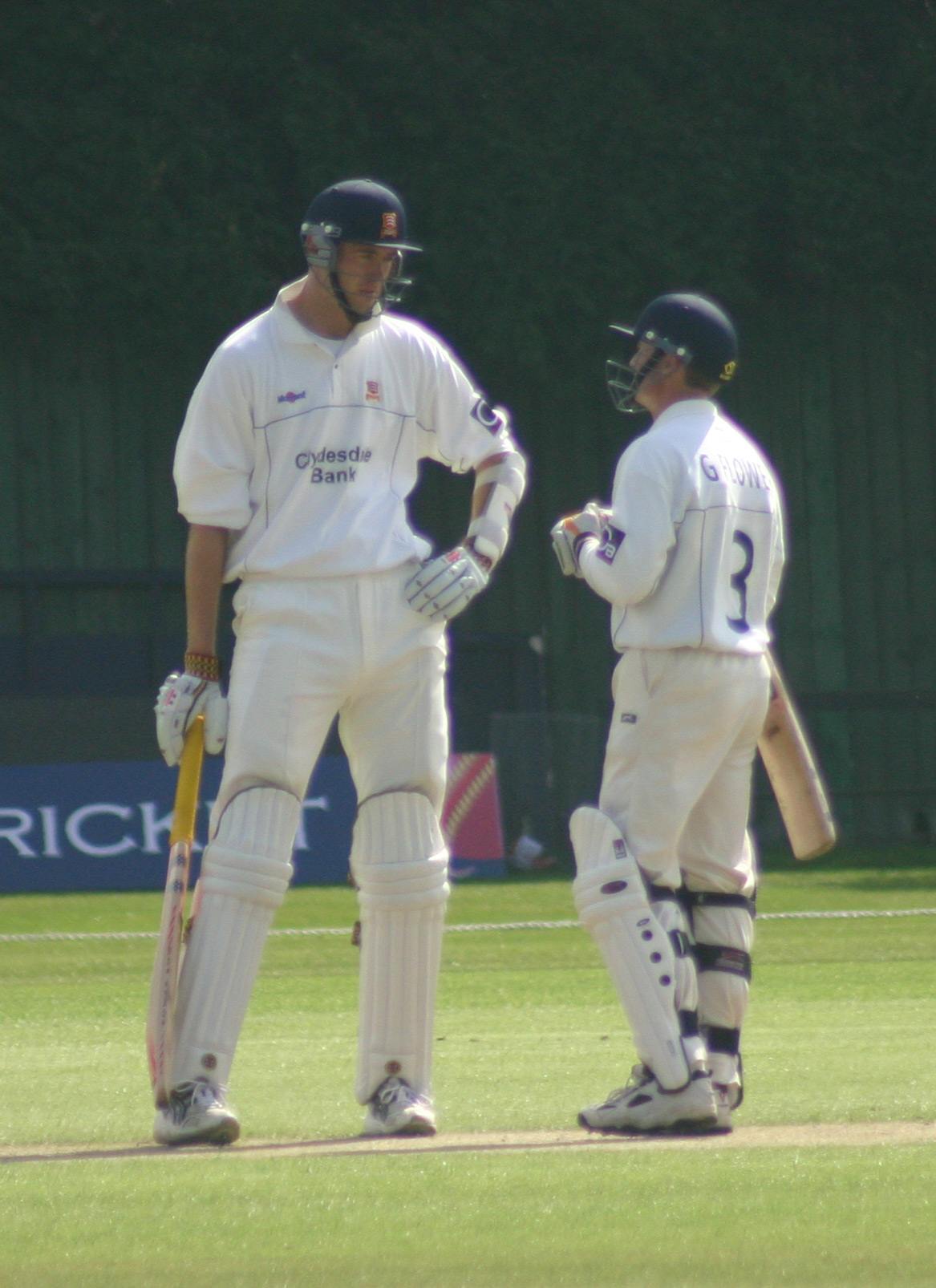 Will Jefferson and Grant Flower playing for Essex against Cambridge UCCE, at Fenner's cricket ground in Cambridge, 10 April, 2005. Photograph taken by Stephen Turner and released under the GFDL.